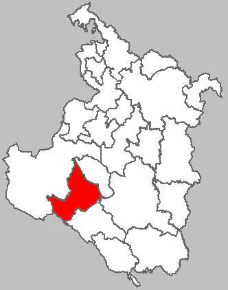 Location of Josipdol municipality inside Karlovac County